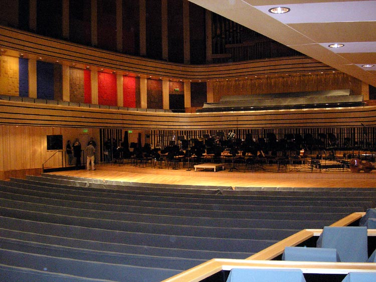 The Palace of Arts, Budapest